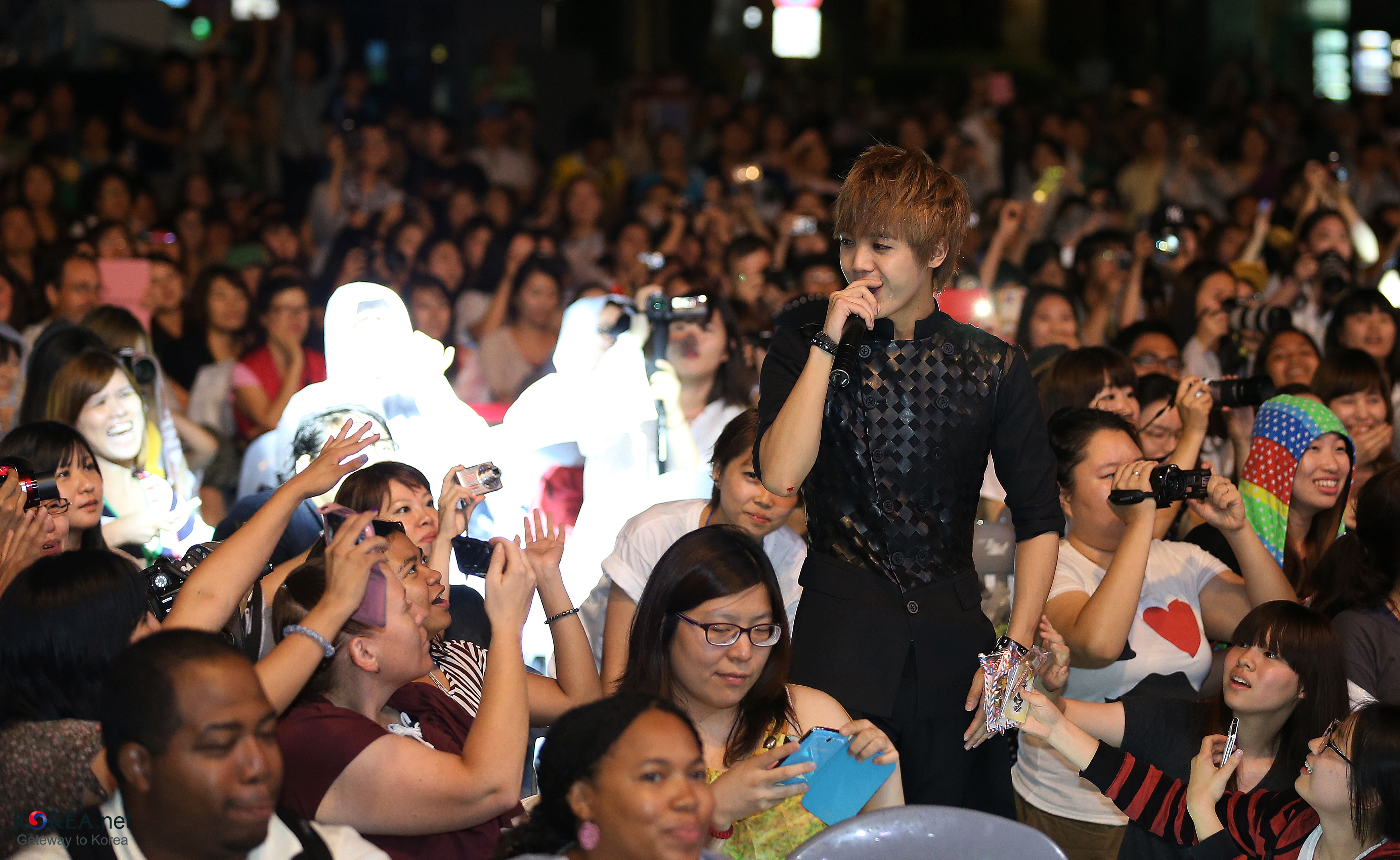 2013 Korea in Motion Festival(KOINMO) KOINMO Opening Ceremony MBLAQ Performance Cheonggyecheon Plaza, Seoul 2013.08.31. Ministry of Culture, Sports and Tourism Korean Culture and Information Service ( JEON HAN 공연관광축제 개막식 엠블랙 축하공연 청계천 광장, 서울 문화체육관광부 해외문화홍보원 코리아넷 전한